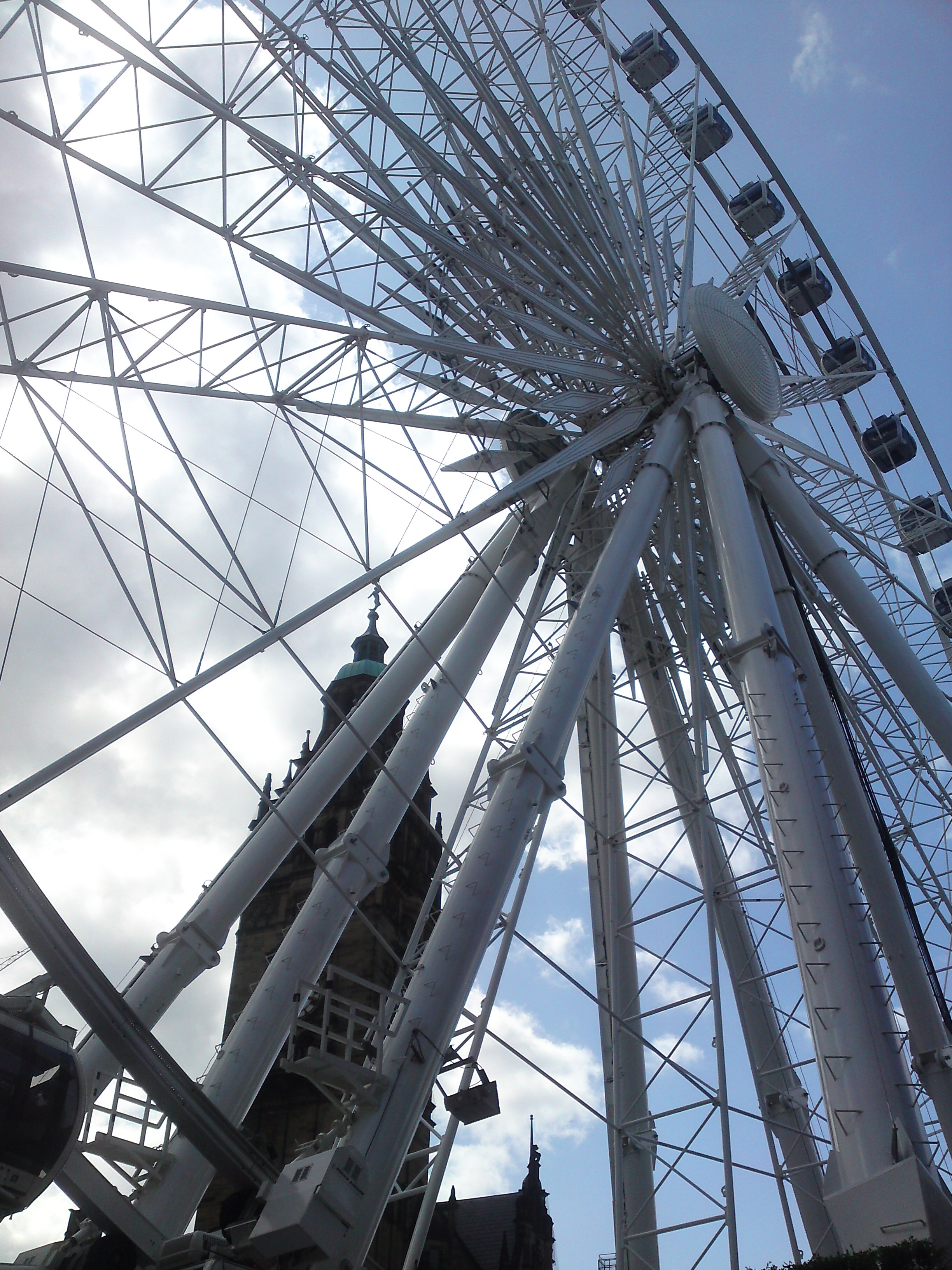 The Wheel Of Sheffield Viewed From Below